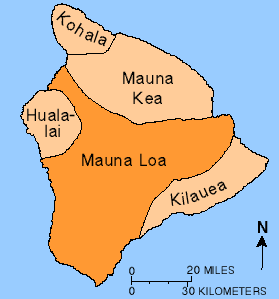 Map showing relationship of Mauna Loa to other volcanoes that form the Big Island of Hawaii